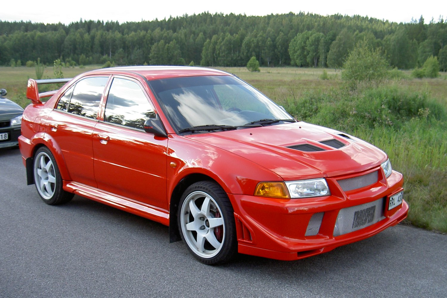 Mitsubishi Lancer Evolution